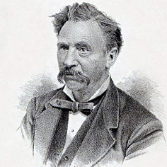 John Winans, US Representative from Wisconsin